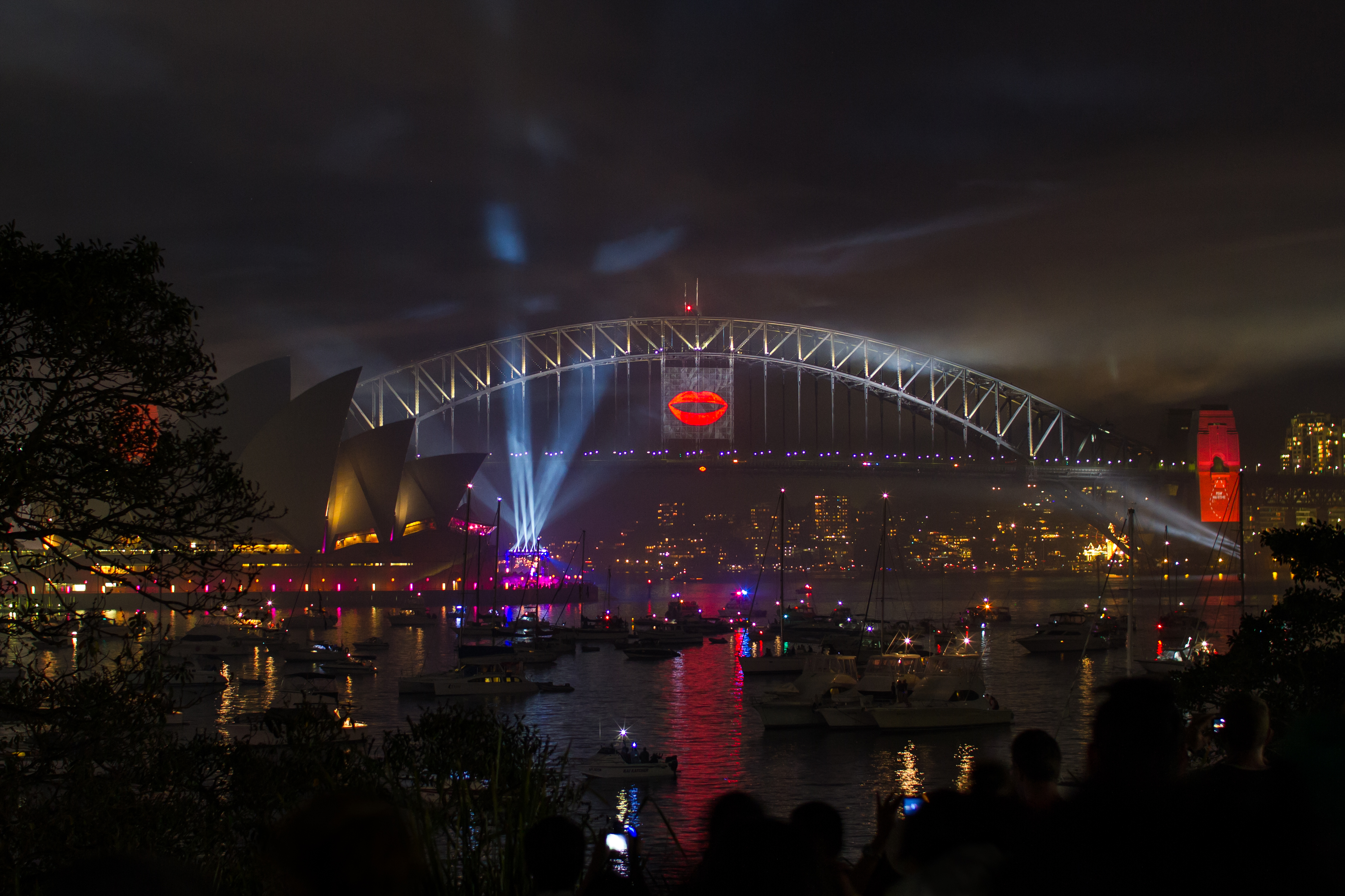 Sydney Harbour at night during New Year's Eve celebrations in 2012/2013